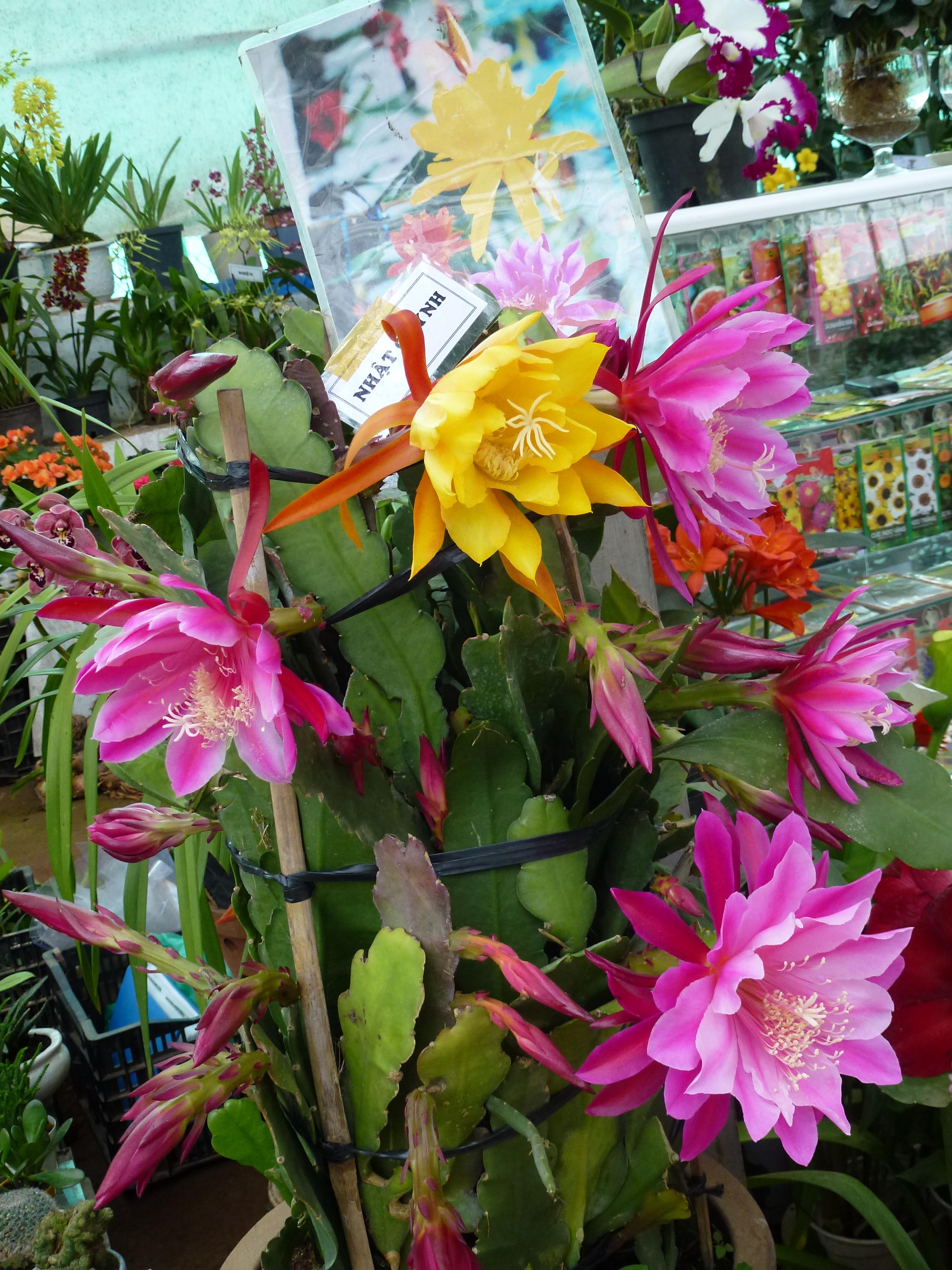 Epiphyllum (hybrid) in Dalat, VietnamTiếng Việt: Hoa nhật quỳnh, lai giữa quỳnh trắng với thanh long